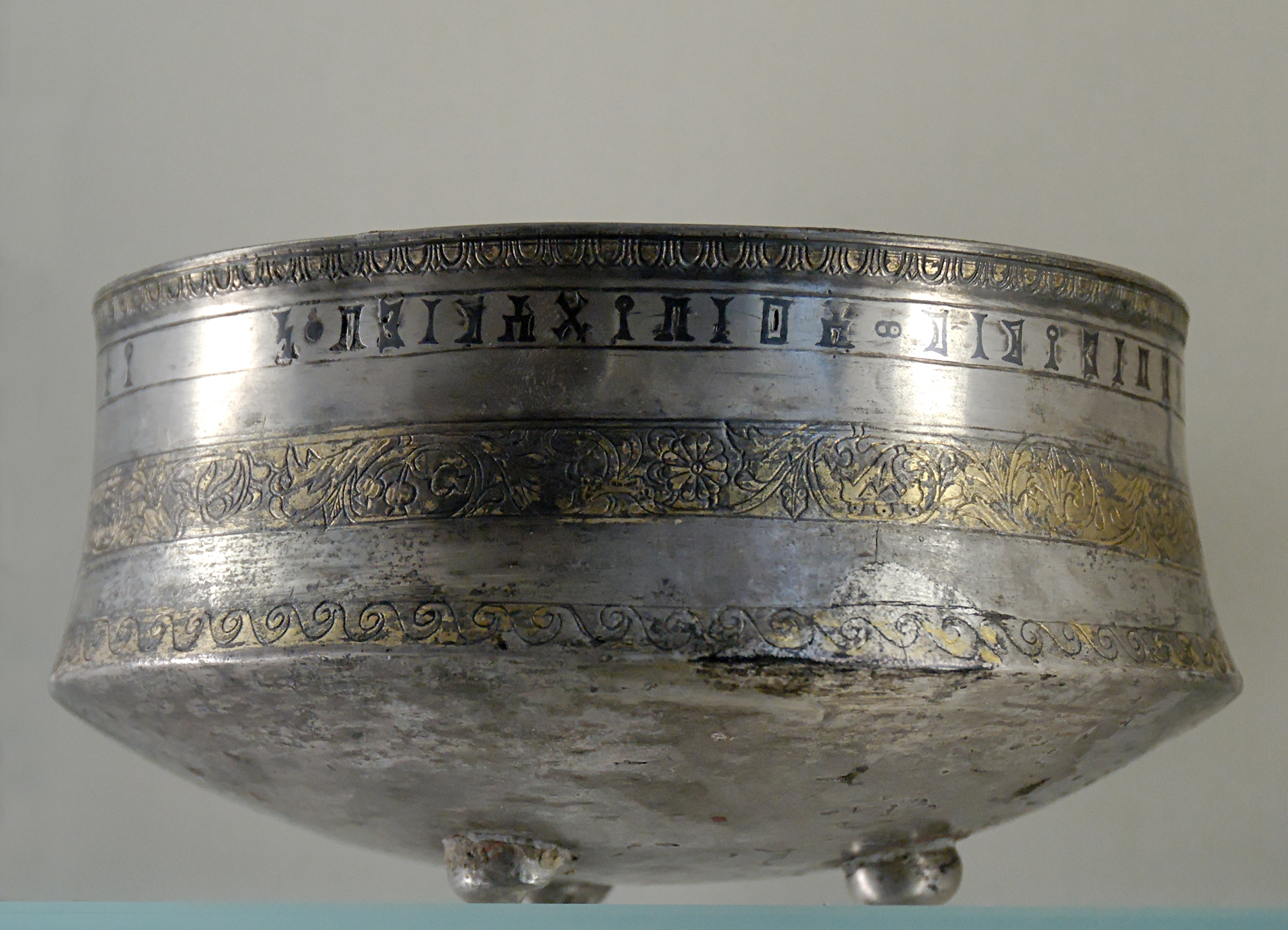 Tripodic cup bearing a Hadramitic inscription in South Arabian script: “Yafa'um of [the] Tarafum [lineage], son of Yagut and 'Ilidhara' of [the] Tarafum 'Abishabb [lineage] placed [this cup] within the household of Shab'an”. Partly gilt and nielloed silver, 2nd–3rd centuries AC. From Wadi Dura', Southern Arabia.